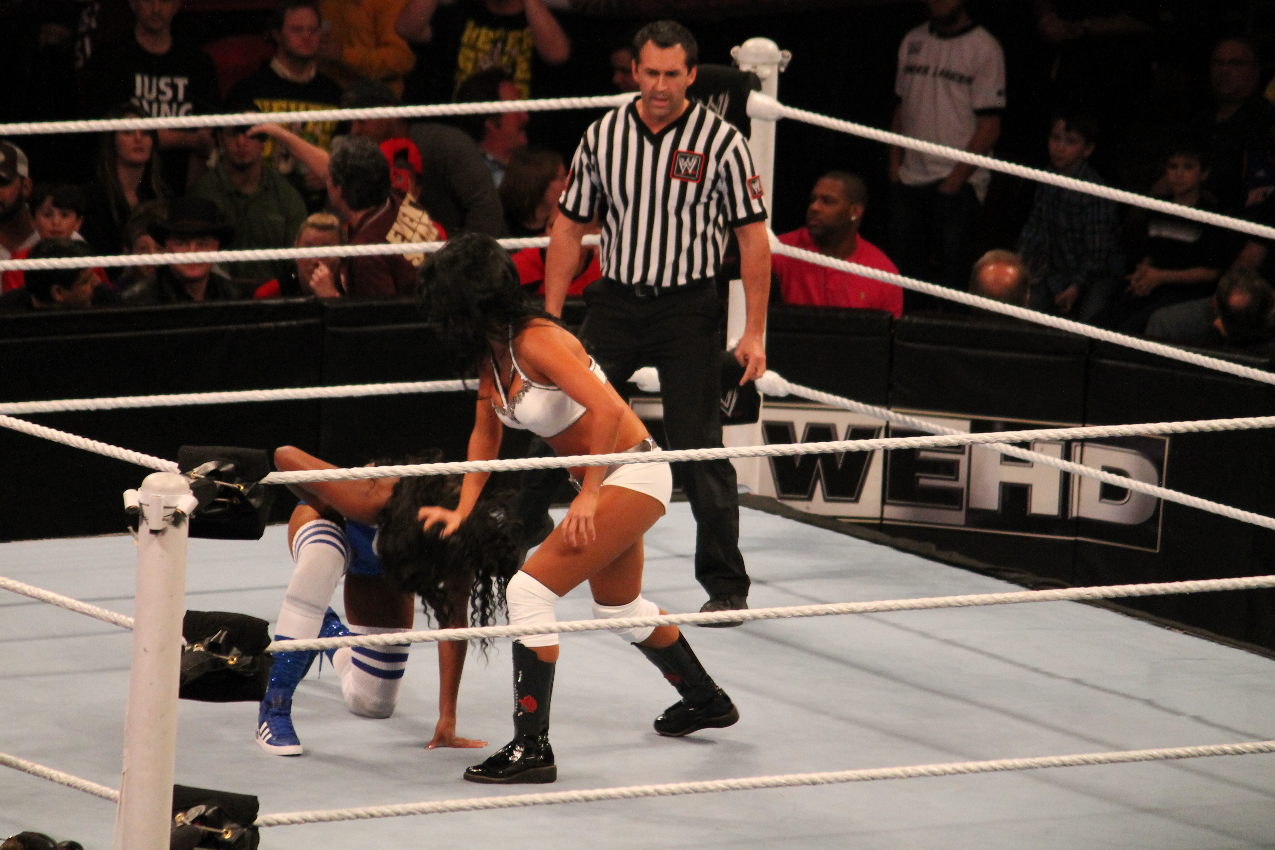 Rosa mendes 2013